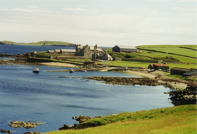 Ferry jetty for Mousa, with Sand Lodge in background